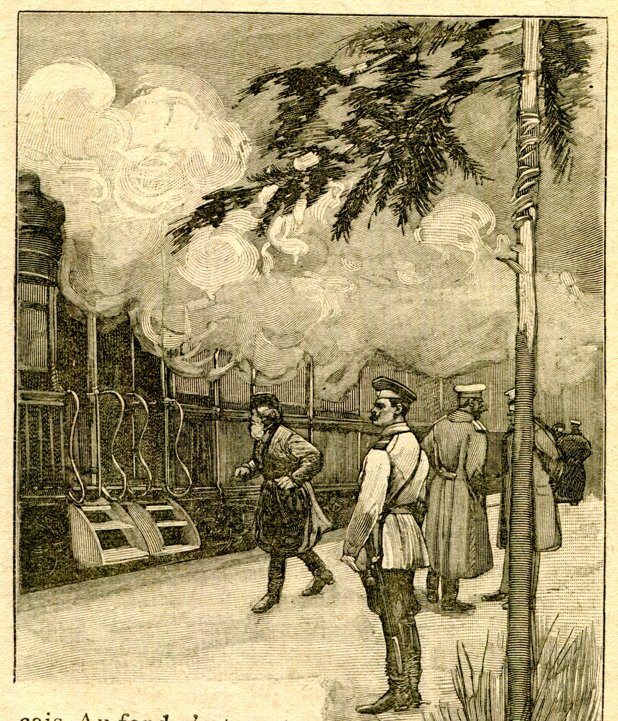 Illustration for the short story "Travelling" (from the collection "Miss Harriet" by G. de Maupassant)